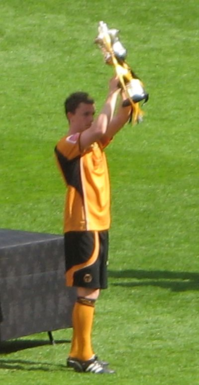 Kevin Foley Player of the Season 2008 2009 - presentation at Molineux 3 May 2009